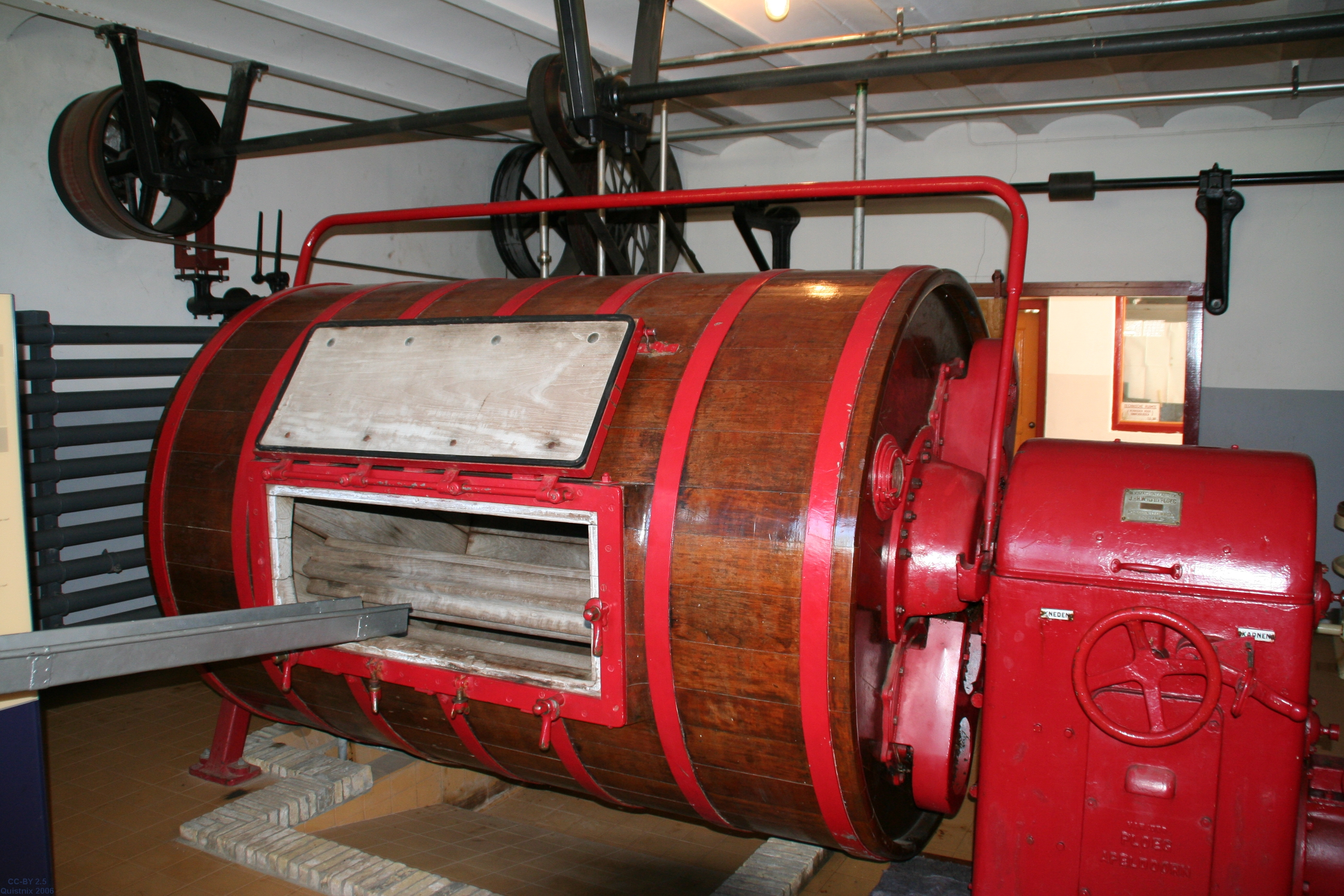 Churn from the butter company "Freia", in the Netherlands Open Air museum.